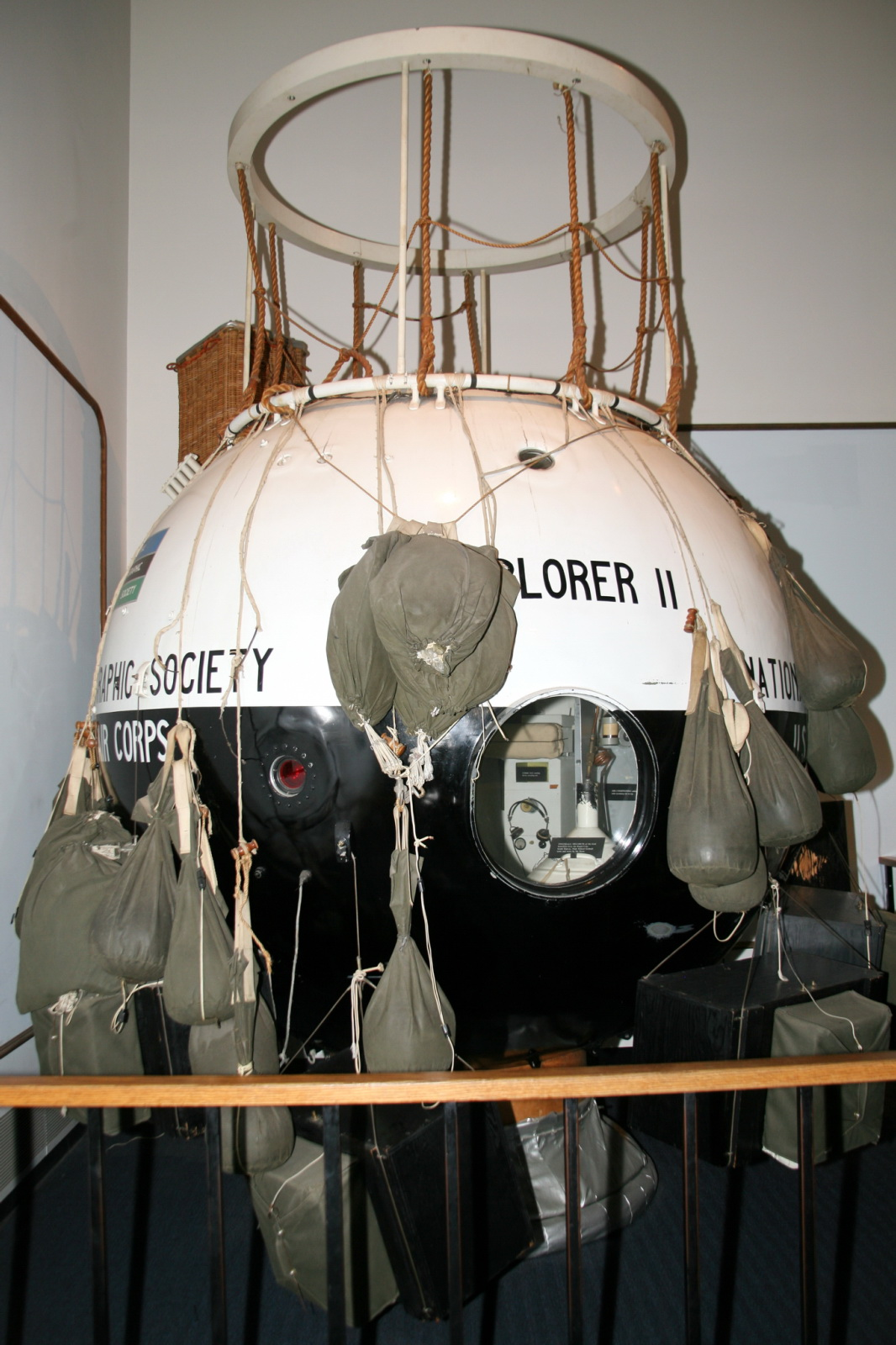 Explorer II gondola in the National Air and Space Museum.